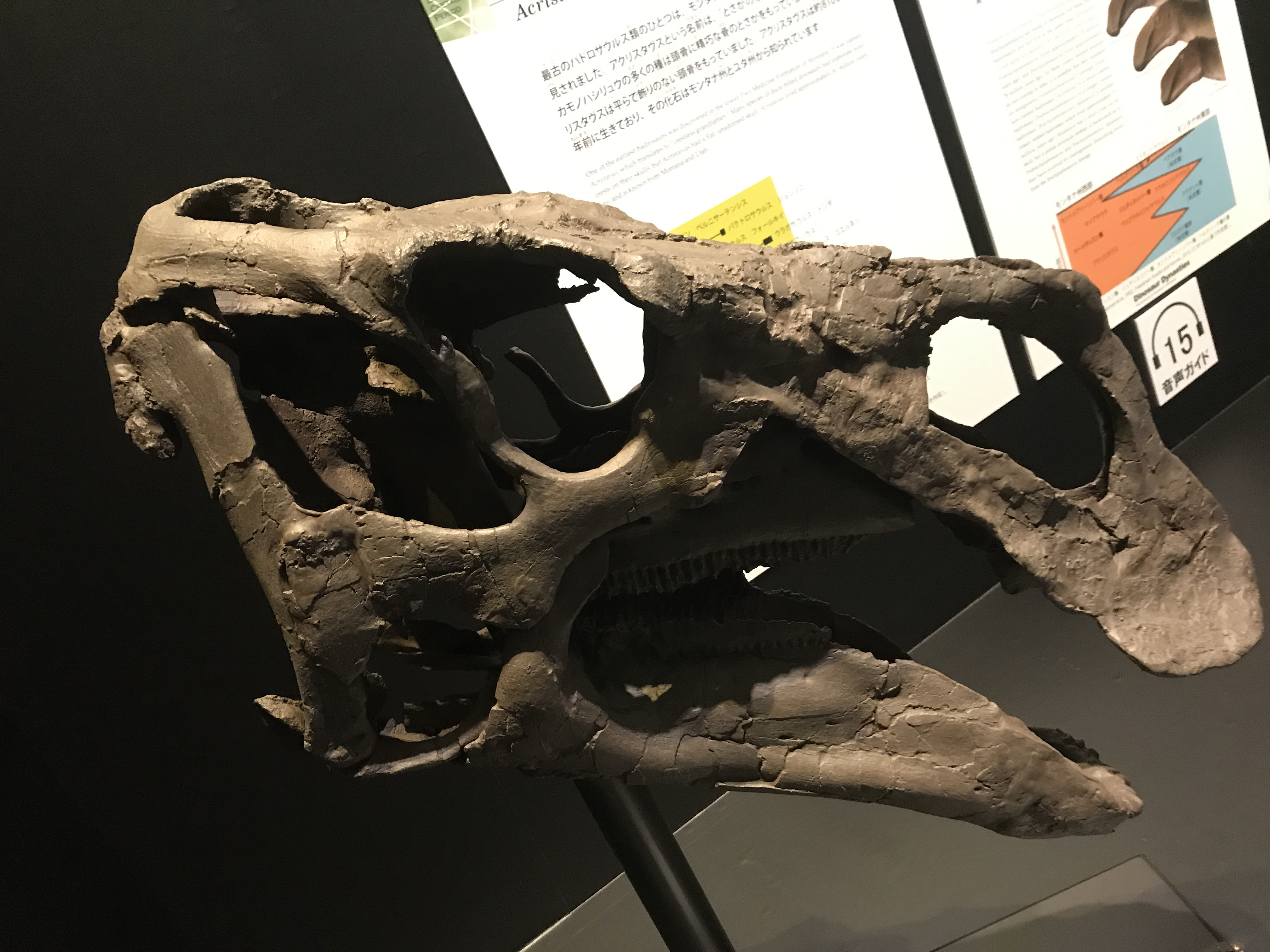 Acristavus skull.